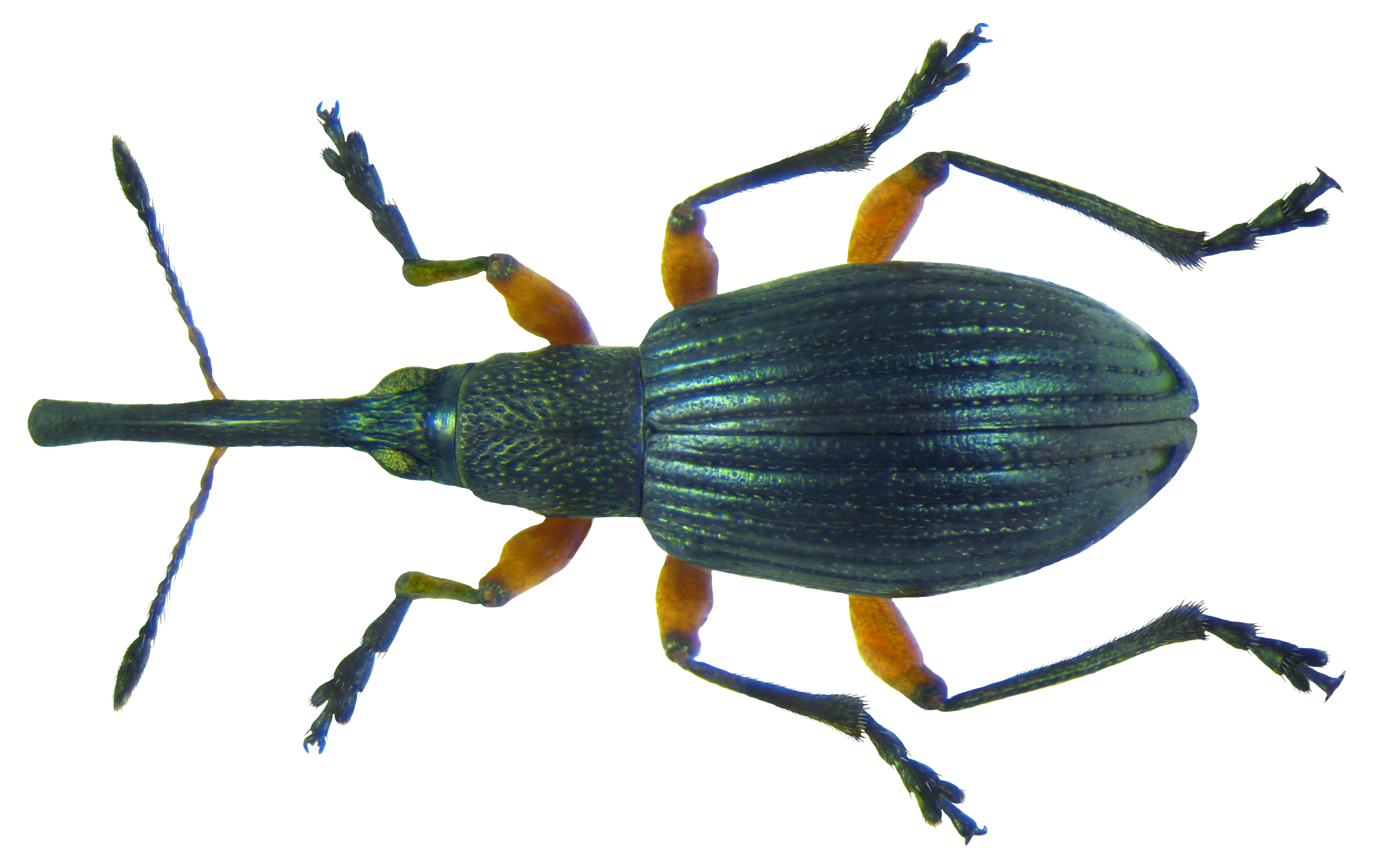 Family: Apionidae Size: 2,2-2,7 mm Origin: palaearctic Ecology: lives on Trifolium pratense Location: Germany, Bavaria, Upper Franconia, Selbitz leg.det. U.Schmidt, 5.IX.2001 Photo: U.Schmidt, 2012